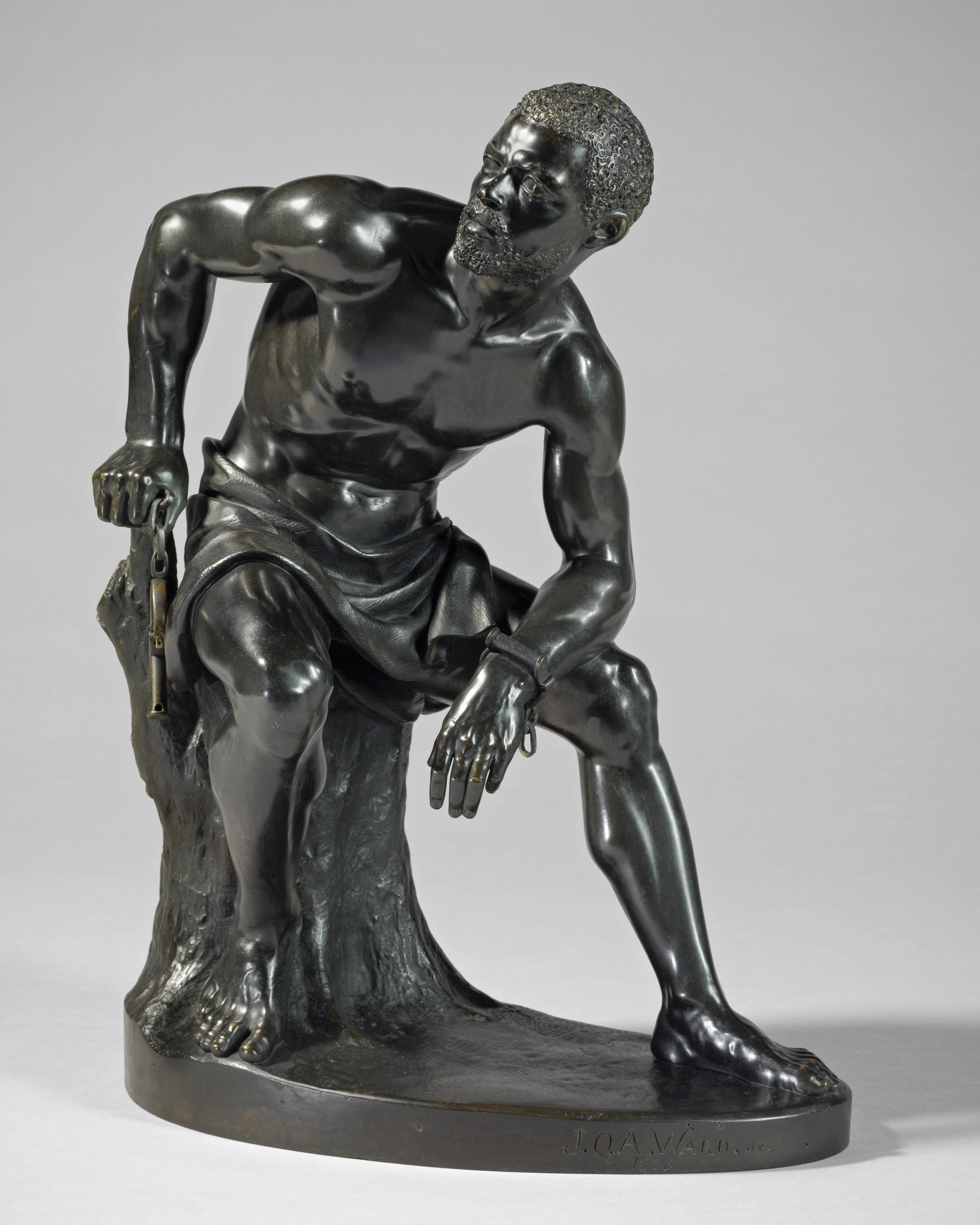 John Quincy Adams Ward (1830-1910) The Freedman 1863 Bronze Amon Carter Museum of American Art, Fort Worth, Texas 2000.15.A